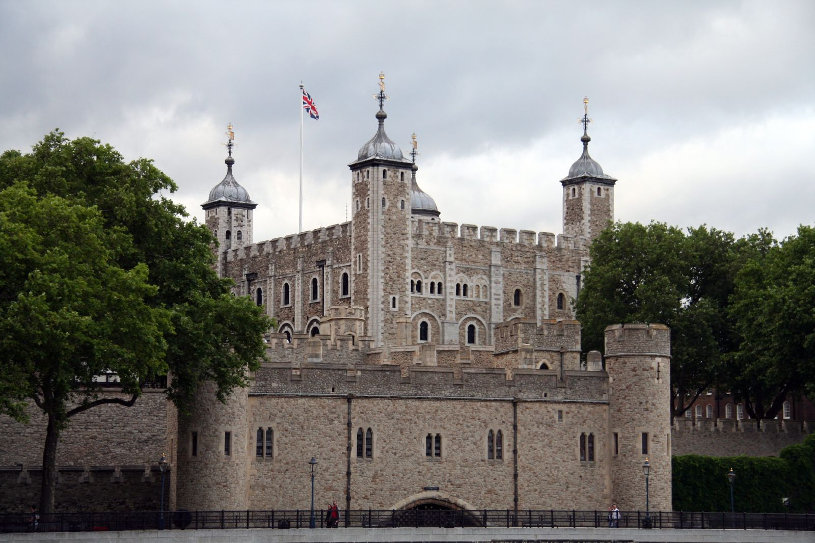 From the river